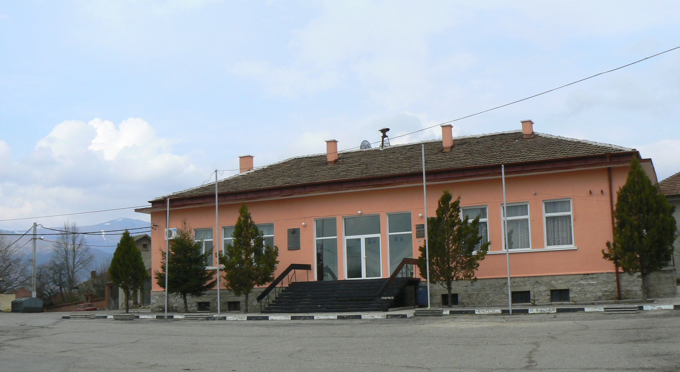 The mayor's office in village Karlievo, Bulgaria